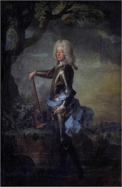 Karl I. Albert prince elector of Bavaria 1697-1745, of the House Wittelsbach, Emperor Charles VII Albert of the Holy Roman Empire from 1742-45